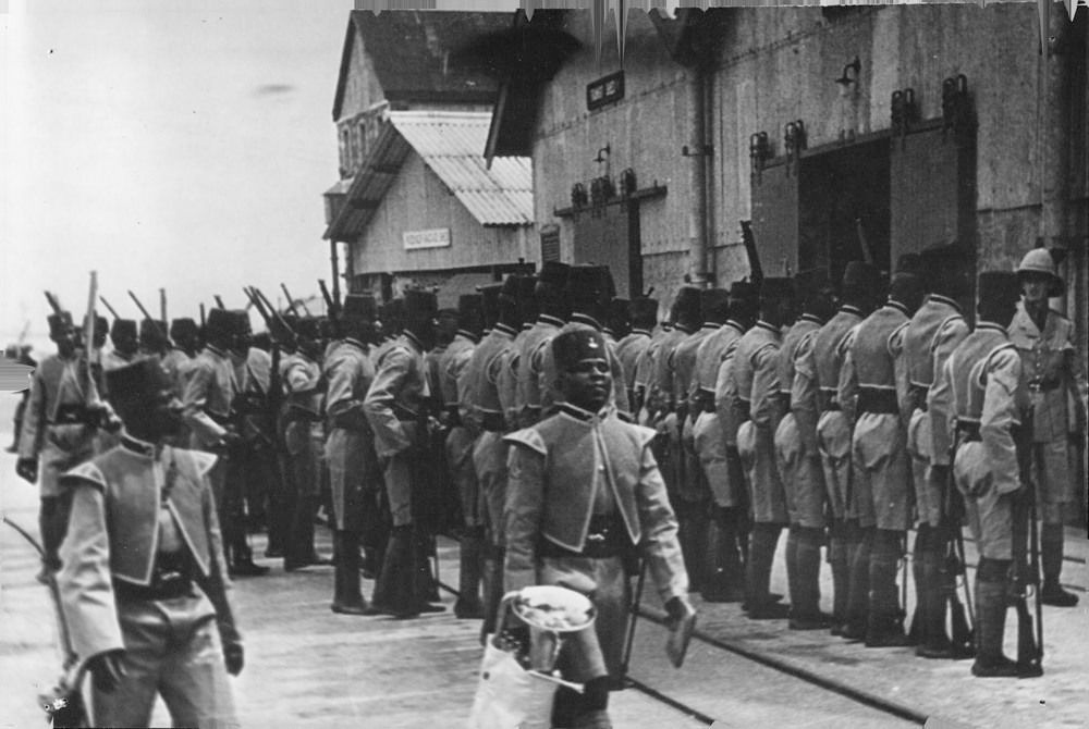 A sierra Leone regiment falling in for parade in Freetown, Sierra Leone, 1939.